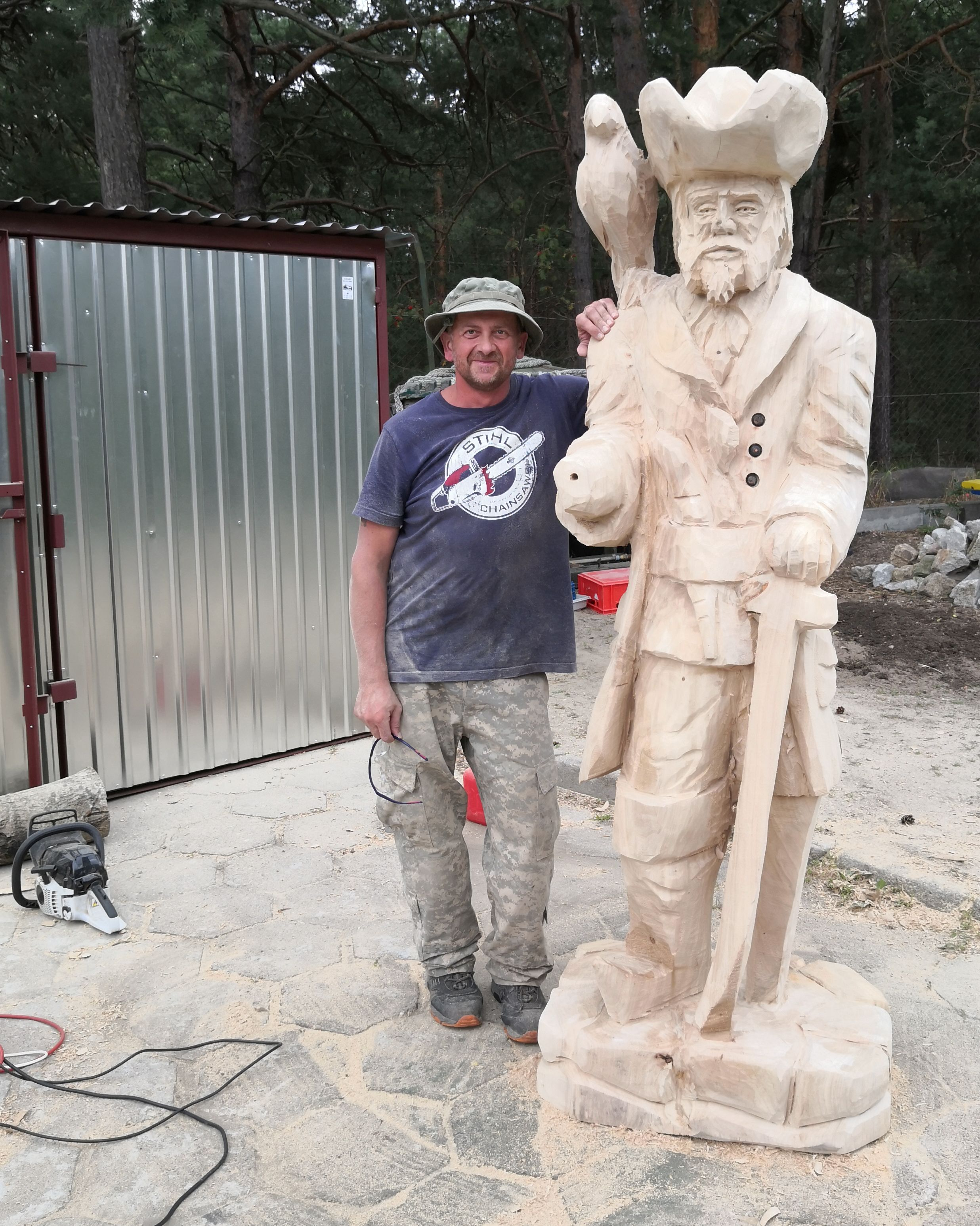 Robert Wyskiel carving John Silver from Treasure Island